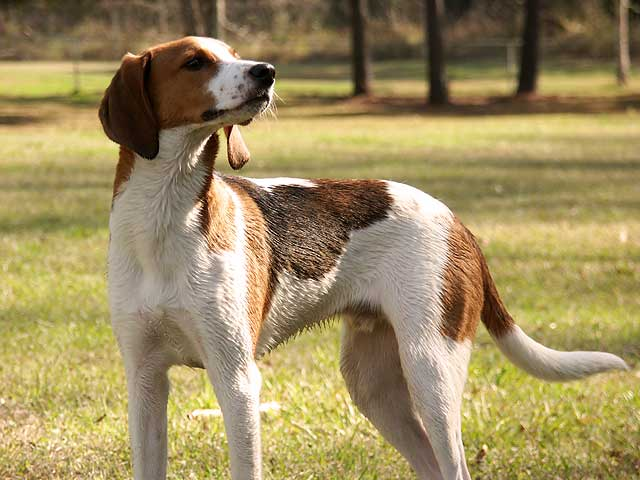 A Treeing Walker Coonhound standing in a park